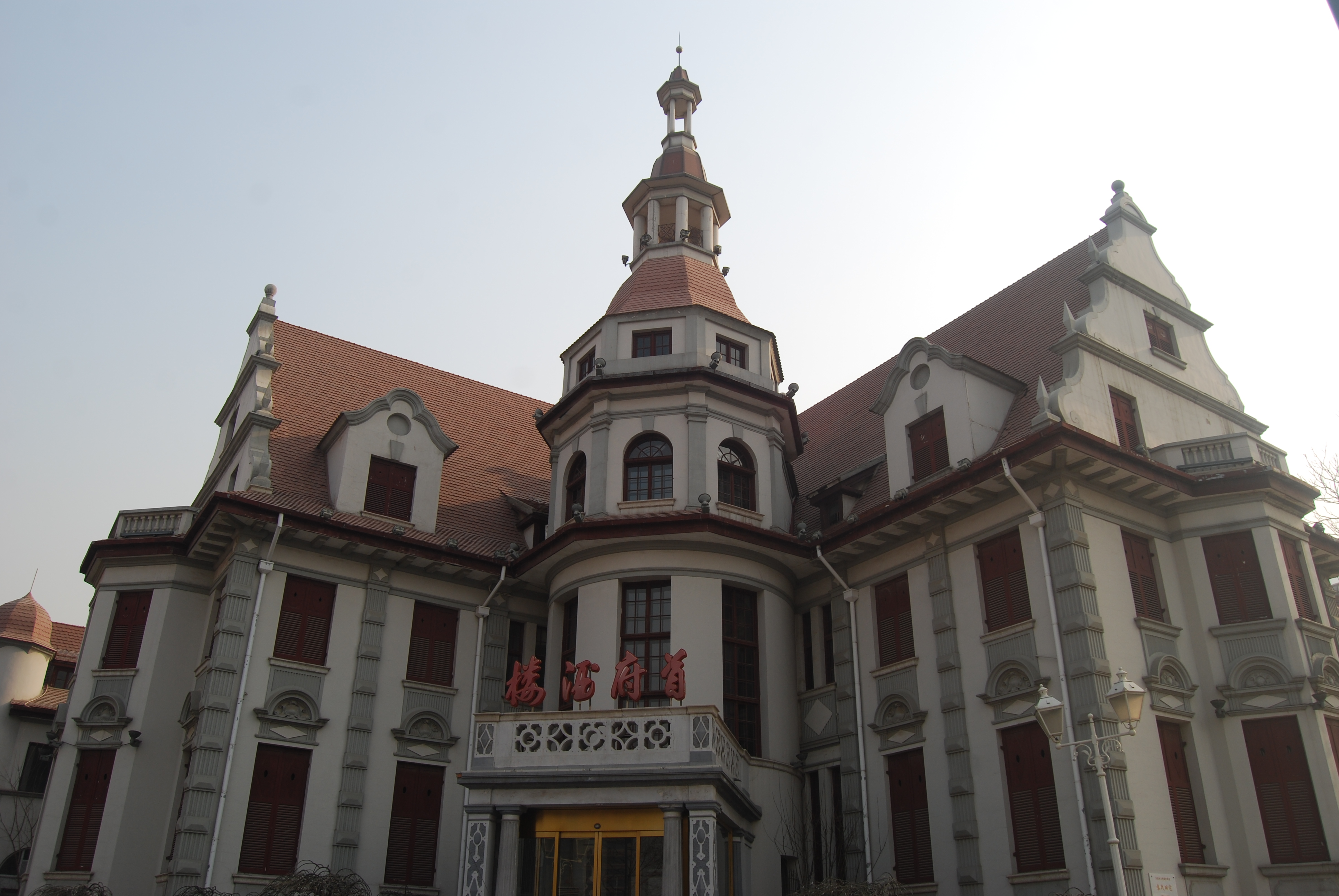 The Former Residence of Mr. Yuan in Haihedong Lu No. 39 (at the corner of Minzhu Dao), Hebei District, Tianjin